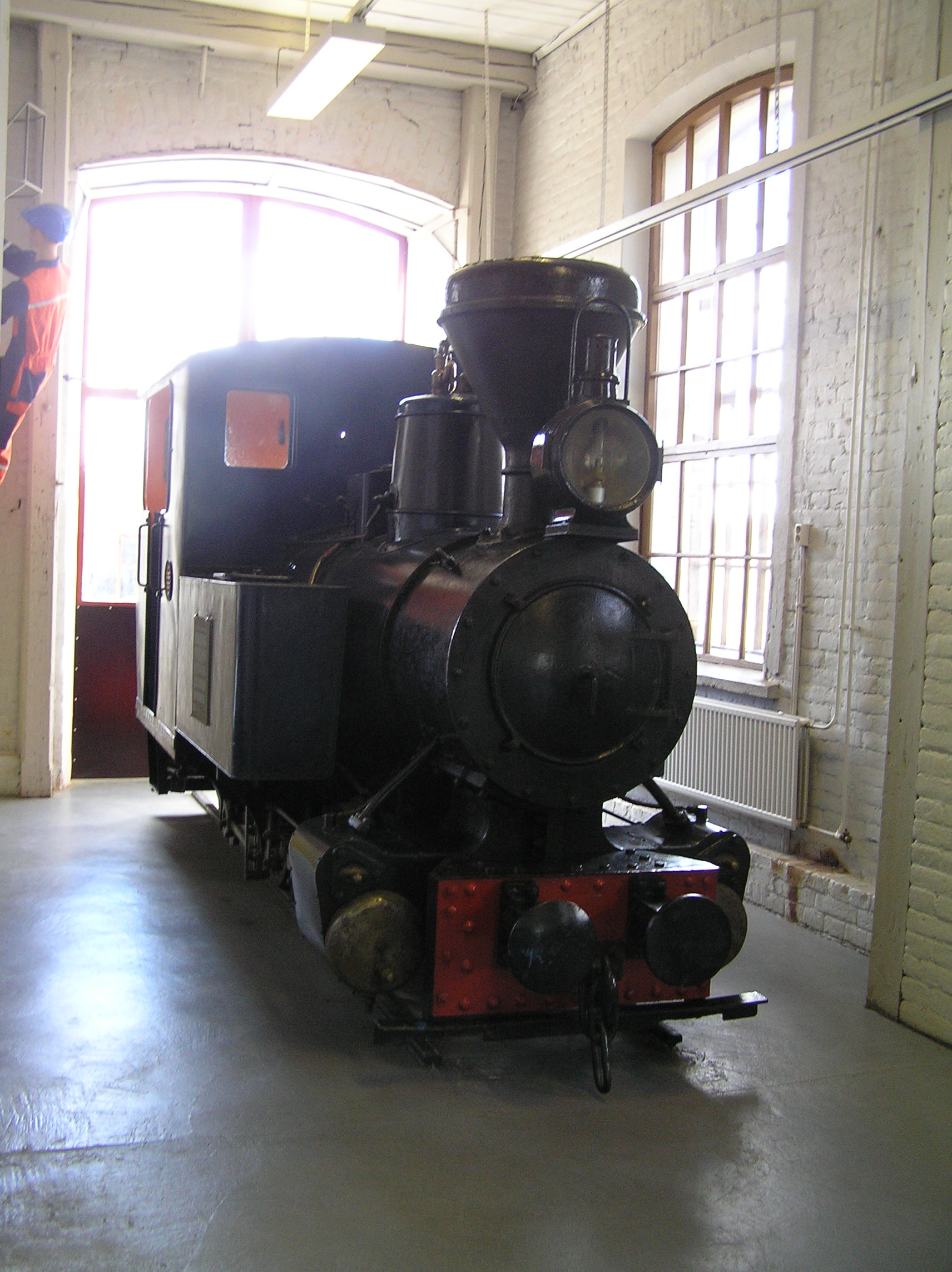 0-4-0T Narrow Gauge locomotive in the Finnish Railway Museum. Built by Tammerfors in 1914